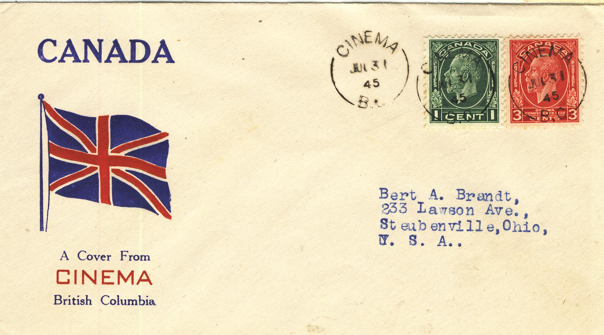 Canada - Cinema British Colombia - Cover